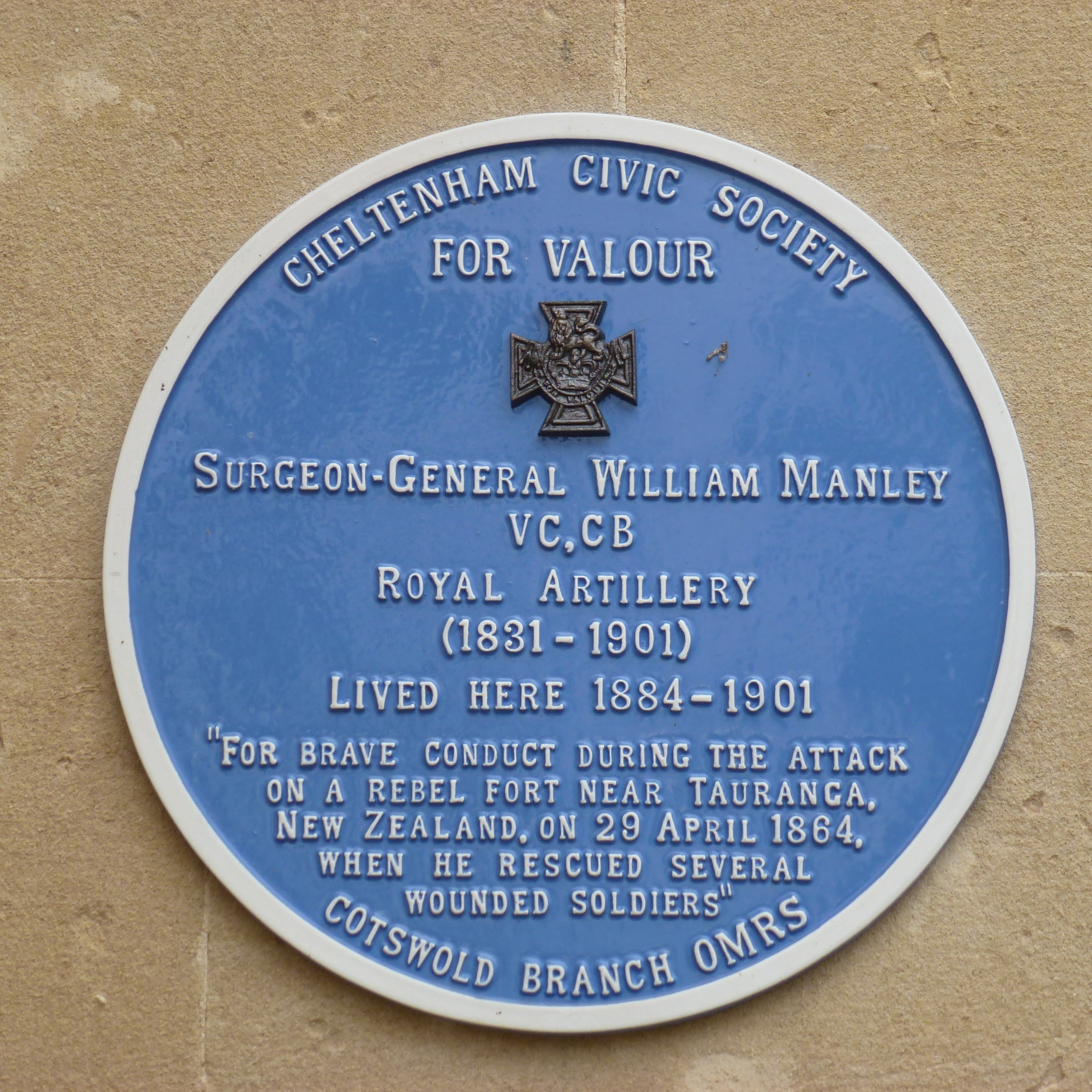 Blue plaque, Cheltenham, UK : "For valour Surgeon-General William Manley VC, CB Royal Artillery (1831 - 1901) Lived here 1884 - 1901. " For brave conduct during the attack on a rebel fort near Tauranga, New Zealand, on 29 April 1864, when he rescued several wounded soldiers".